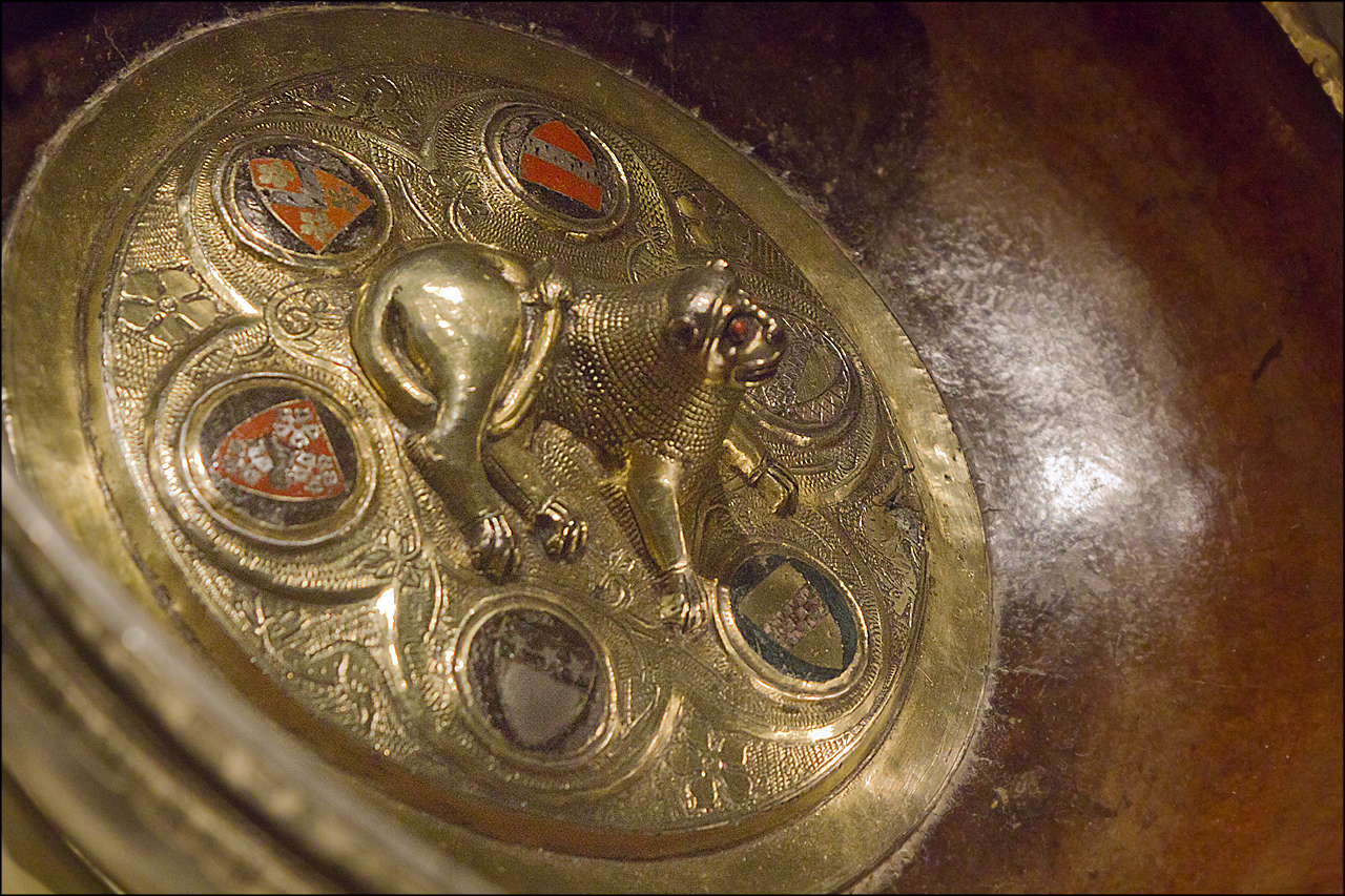 National Museum of Scotland. A mazer was a communal drinking cup used while feasting. They were originally made in Germany (between the 11th and 16th centuries) from maple, which has spotted markings - Maser is the German word for these spots. They take the form of shallow bowls with a foot to rest it on a table, and a decorative boss in the centre of the inside. The foot, the boss (also known as the print) and the metalwork around the rim of the Bute Mazer are all made of silver. This is the oldest surviving Scottish mazer, and is associated with Rothesay Castle on Bute. It is thought to have been used in the 1320's, so is at least that old.